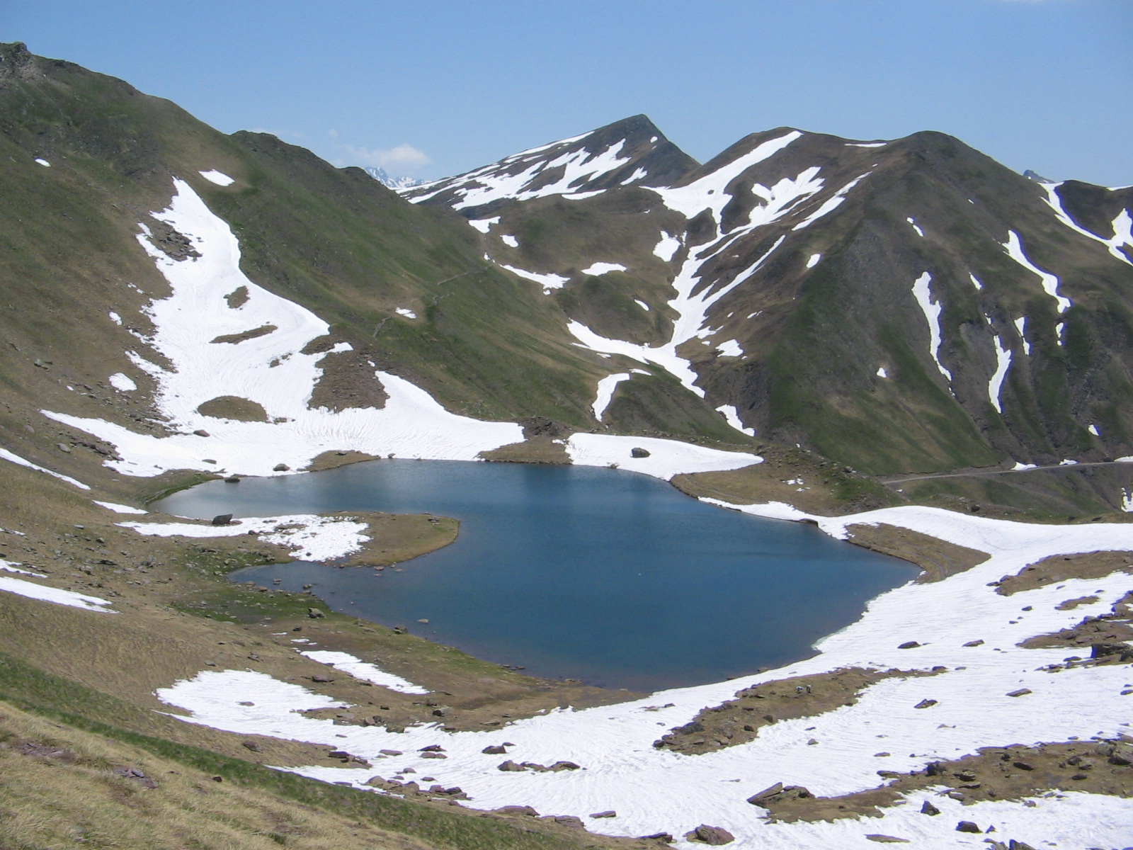 Pyrenean lake Escalar close to the Pic des Moines